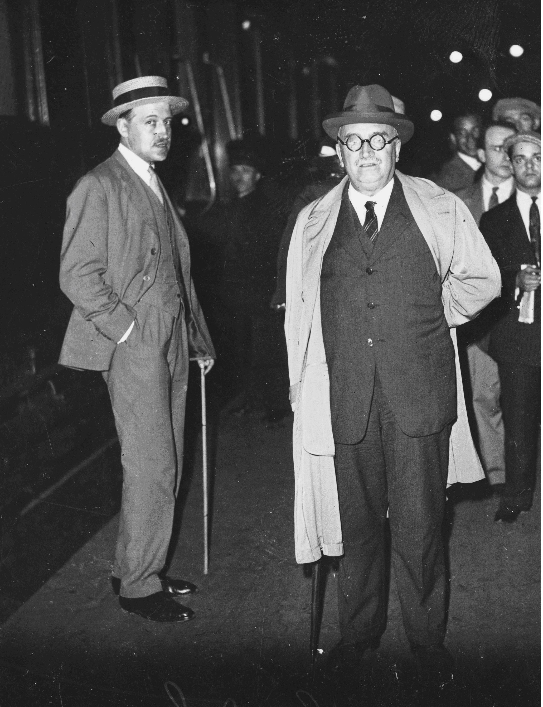 Paul Petit and Paul Claudel, french writers, 1938